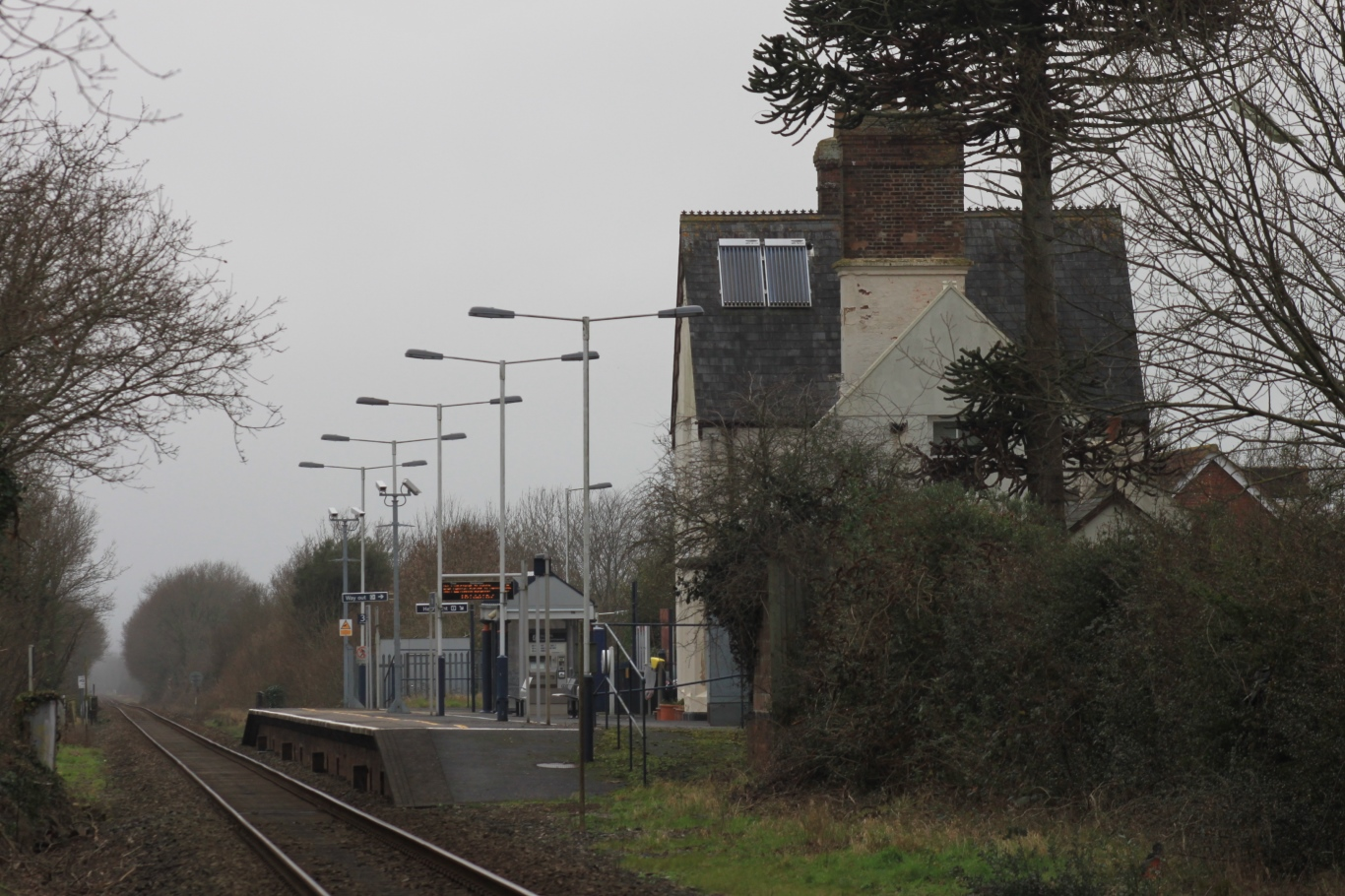 Looking down the line towards Exeter at Whimple. The station is much smaller now than in the past but Willaim Titie's station house still stands (although no longer used by the railway) as does the old Monkey Puzzle tree behind the platform.